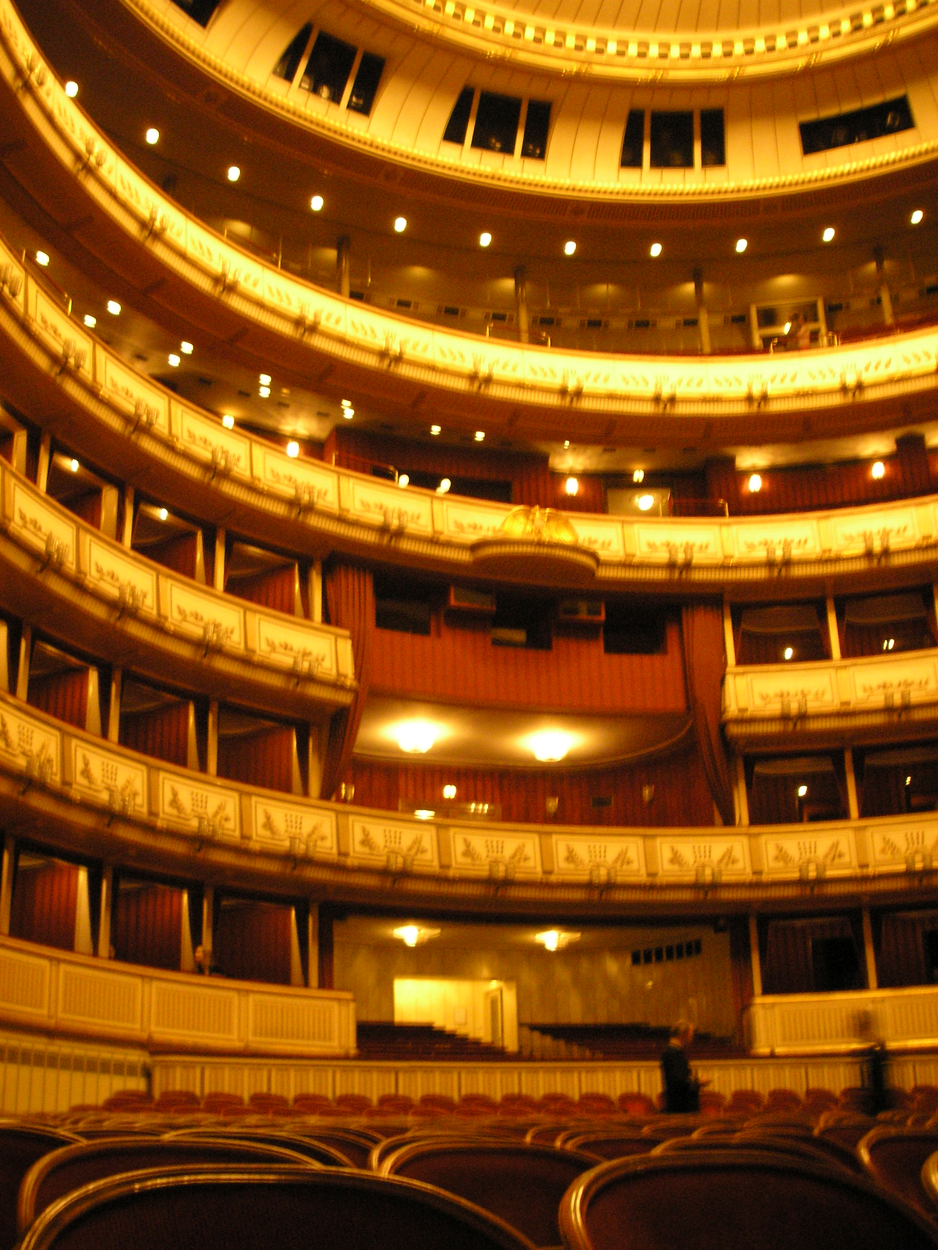 Description: View from the floor to the gallery in the Vienna State Opera. Blick vom Parkett auf die Logen in der Wiener Staatsoper. Source: Self-made, I release it into the public domain.